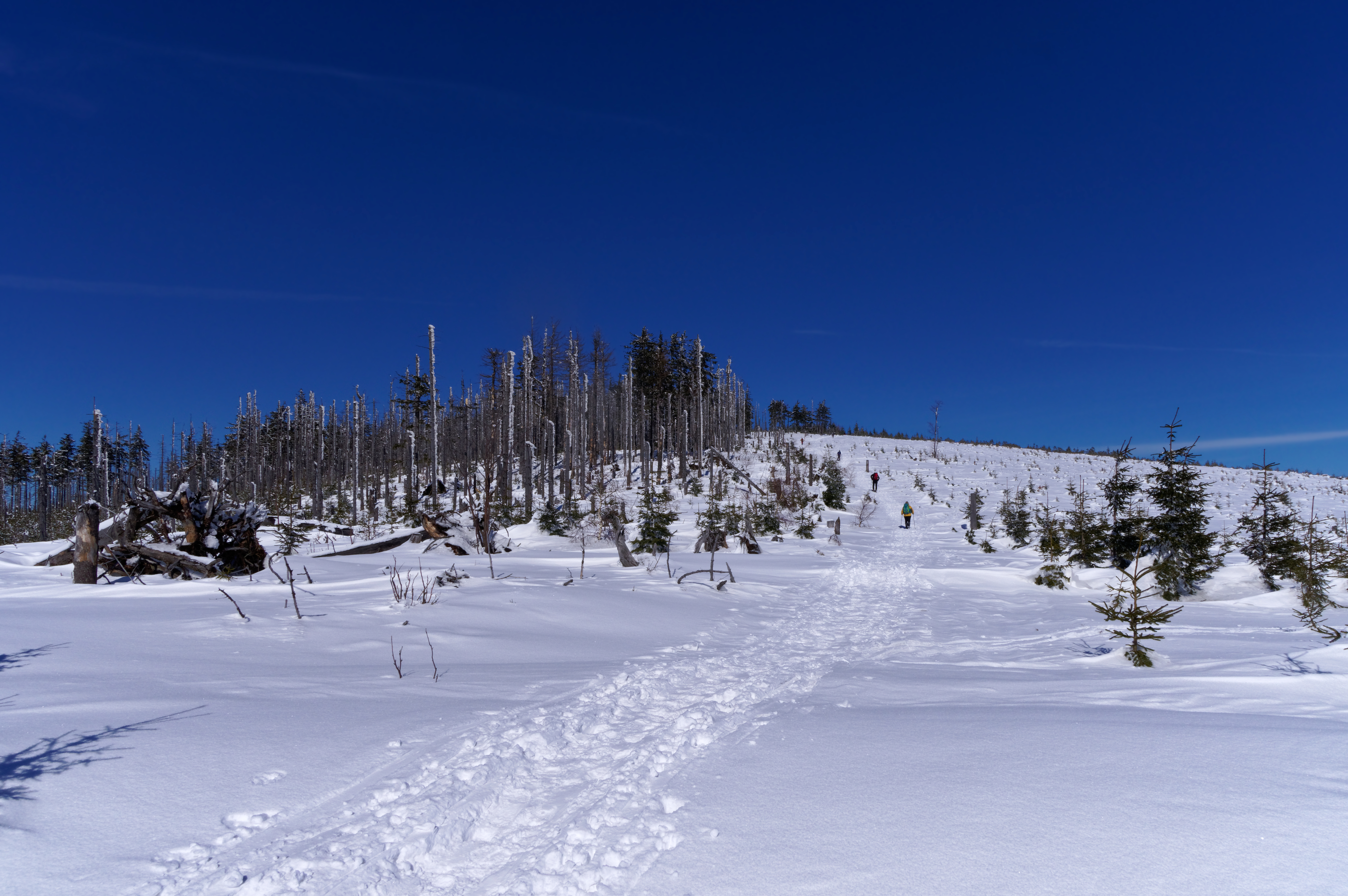 Magurka Wiślańska in Silesian Beskids